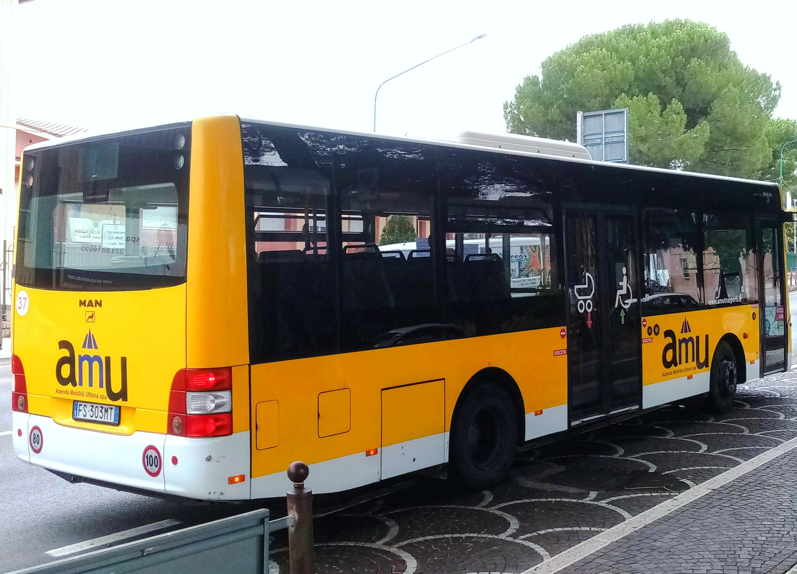 AMU transit bus in Ariano Irpino, Italy